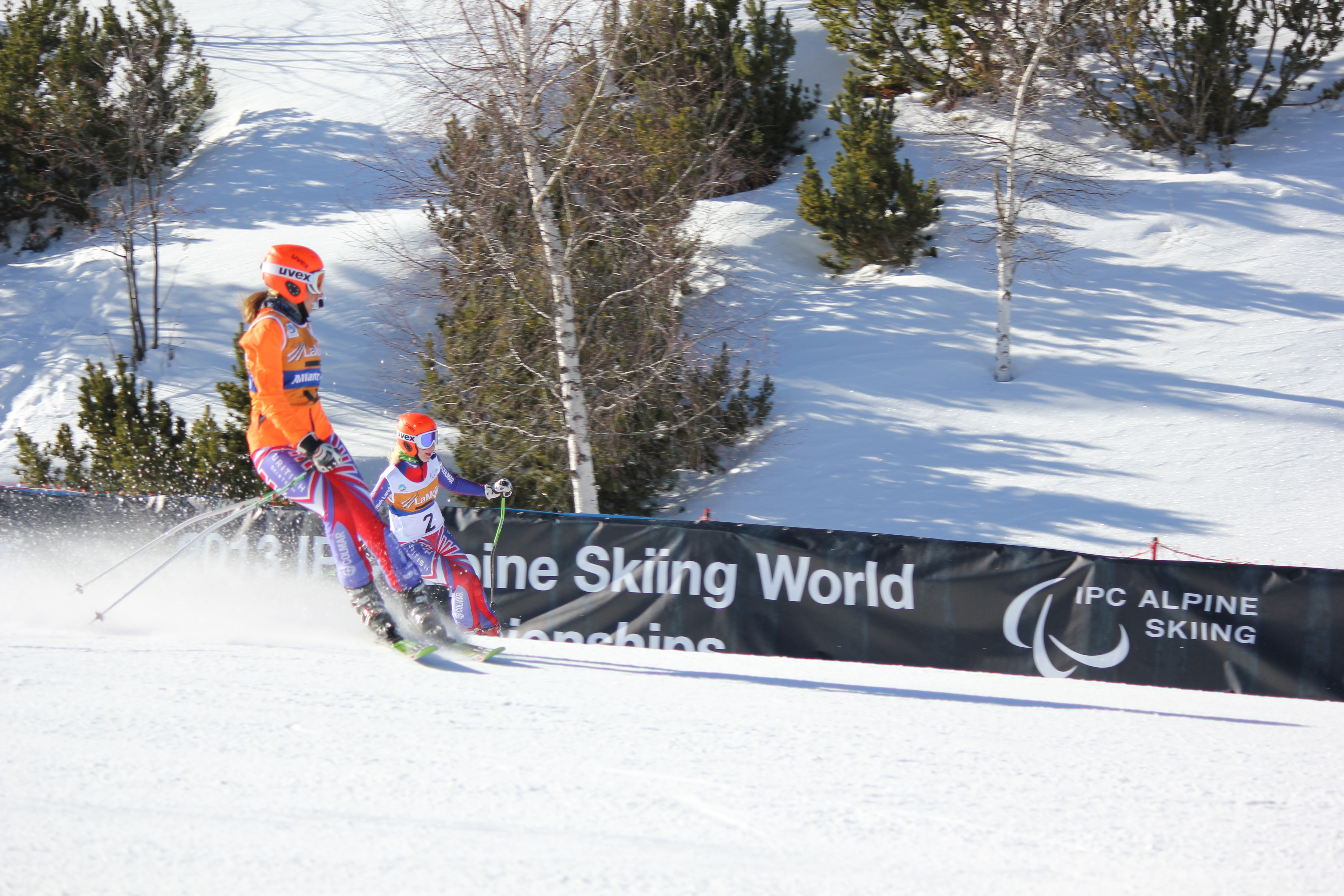 2013 IPC Alpine World Championships at La Molina in Spain. Day 1. Downhill final. Skier Kelly Gallagher and guide Charlotte Evans . Kelly Gallagher is B3 from Great Britain.